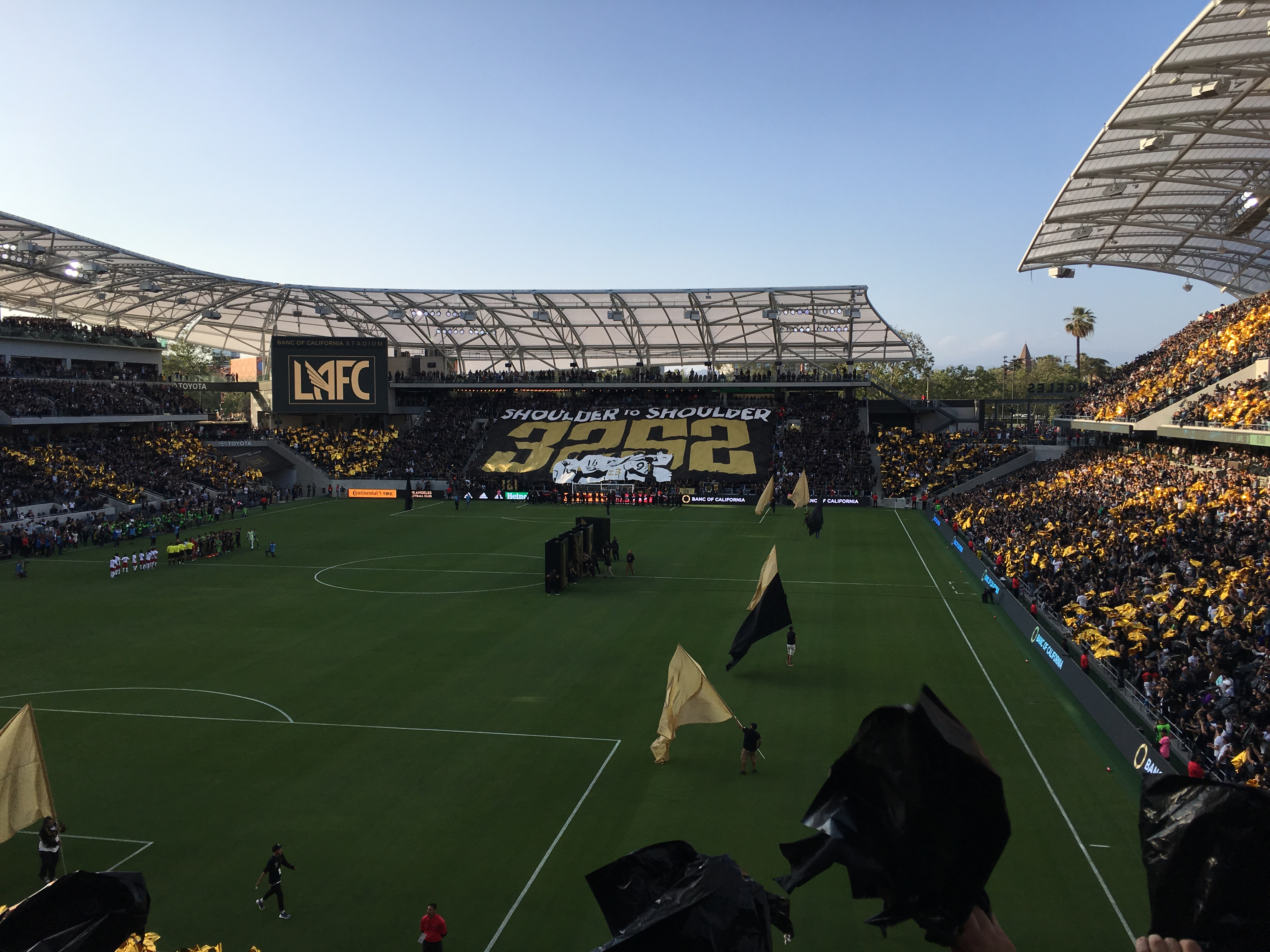 1st Game of the 2018 season